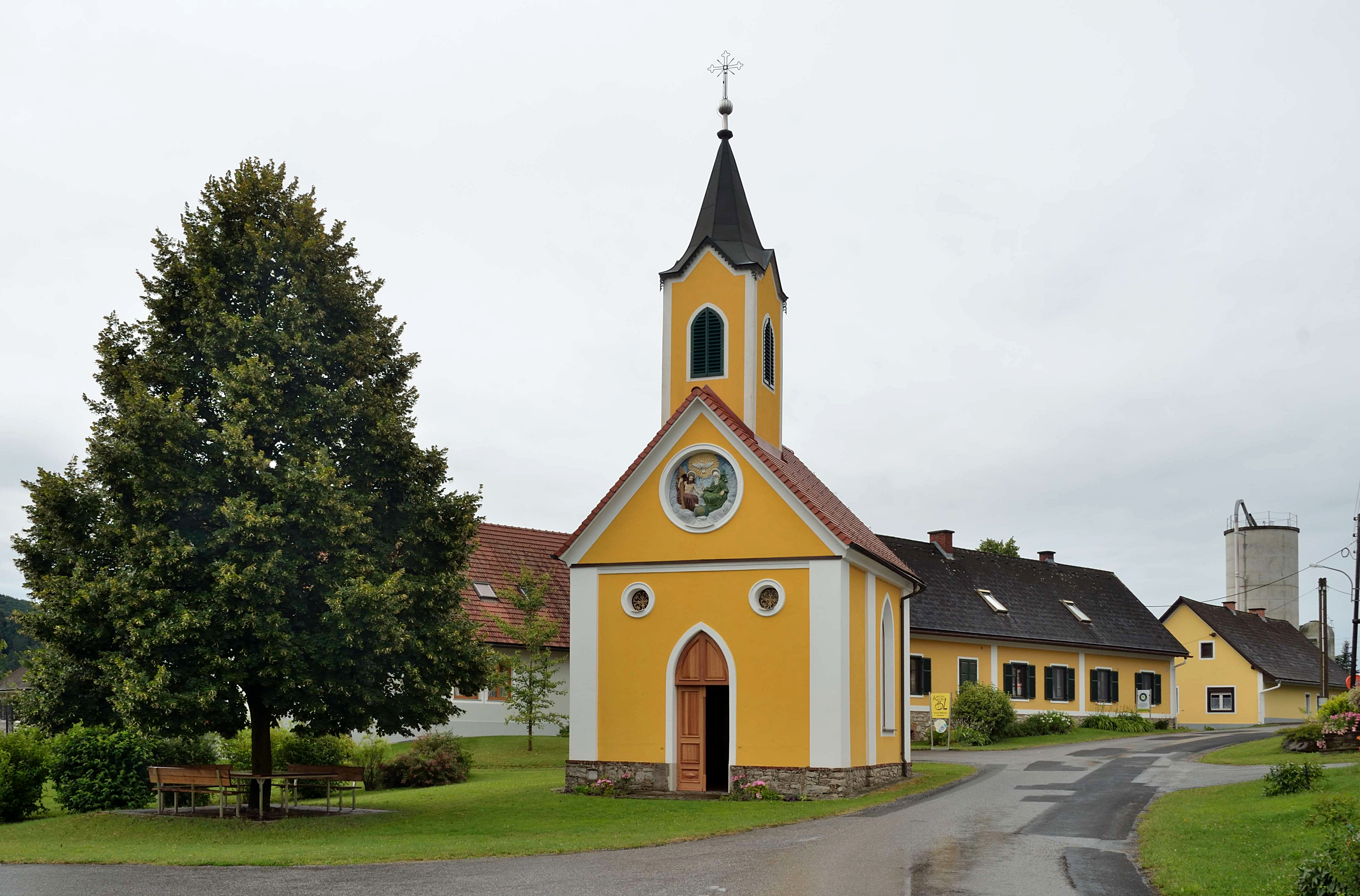 The local chapel at Kleinklein, municipality of Großklein, Styria.